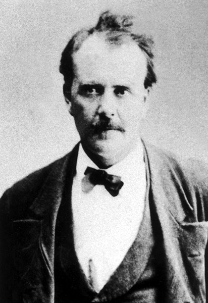 Historical photo of Wells Spicer, 1875. Cropped from group photo of John D. Lee's defense team for Lee's second murder trial.